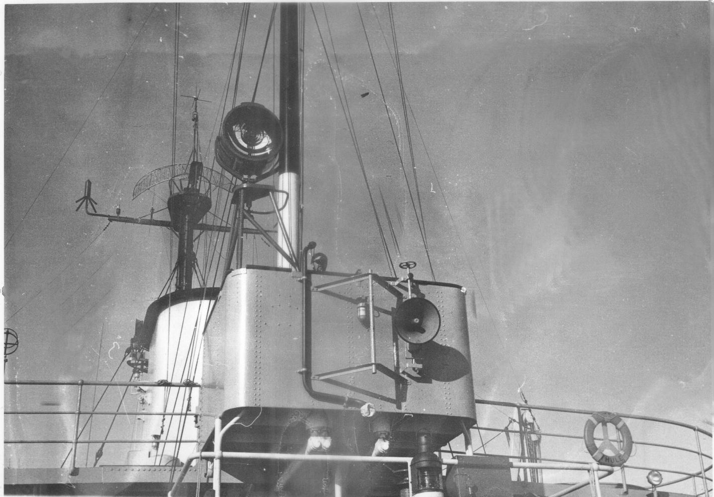 The aft bridge on Swedish icebreaker Thule